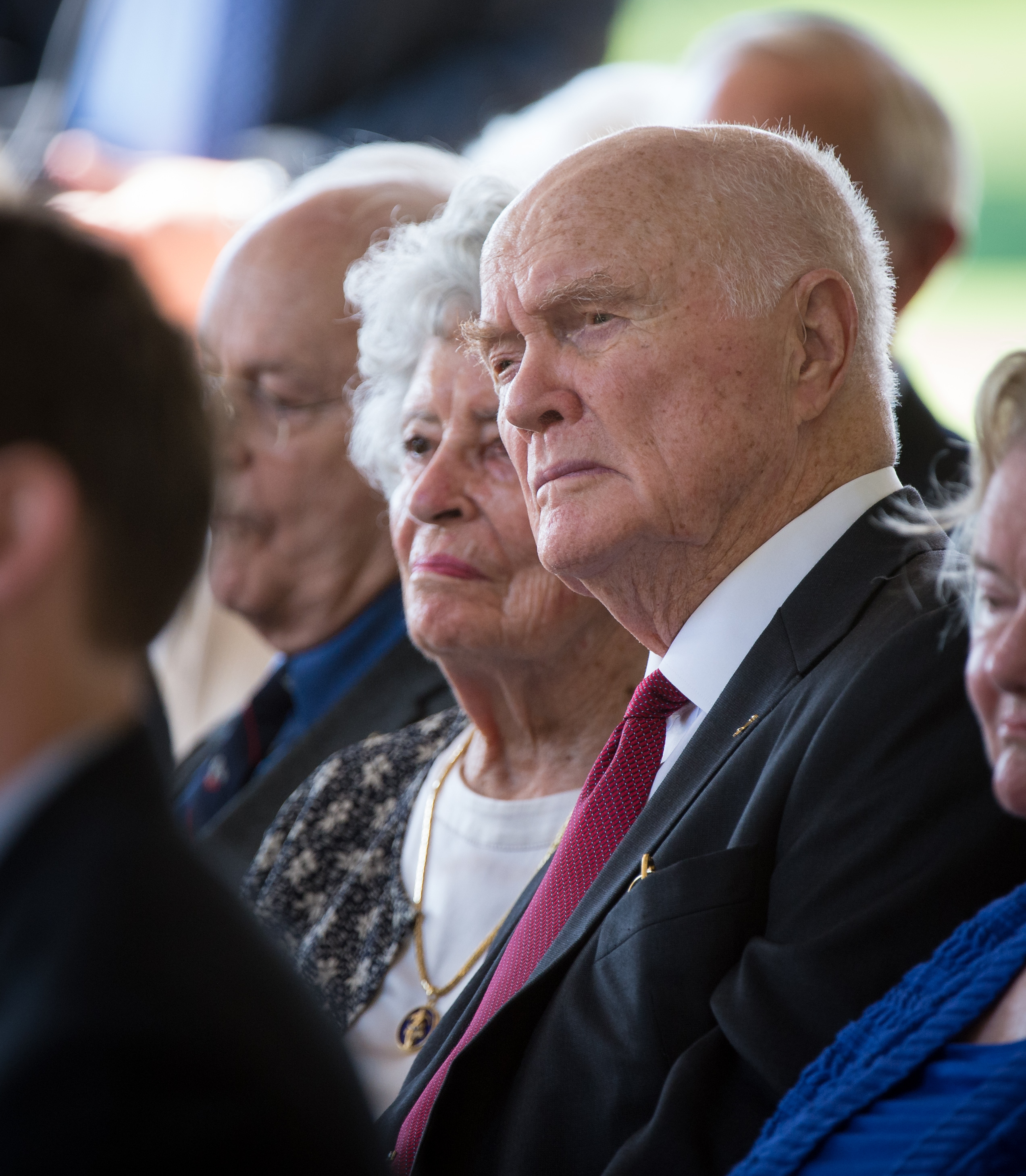 Sen. John Glenn and his wife Annie listen during a memorial service celebrating the life of Neil Armstrong, on Friday, 31 August 2012, at the Camargo Club in Indian Hill near Cincinnati. Armstrong, the first man to walk on the moon during the 1969 Apollo 11 mission, died on Saturday, 25 August. He was 82.